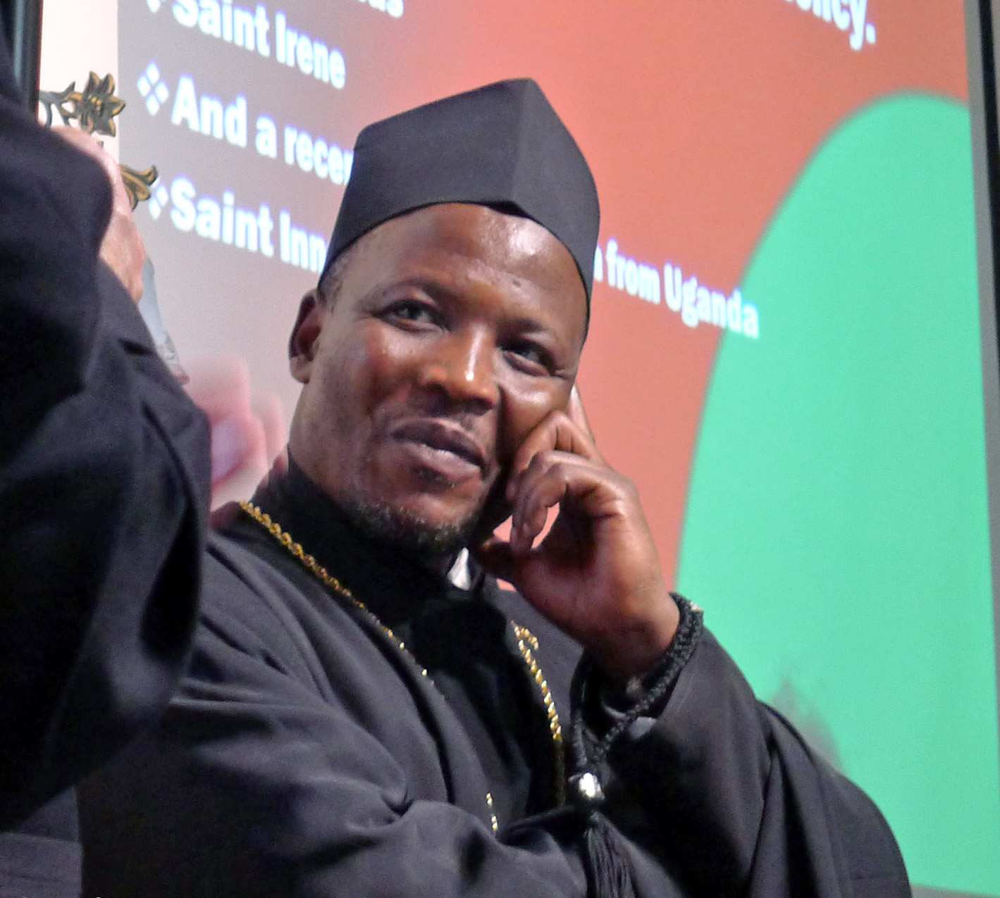 Presentation by Bishop Athanasios of Kisumu and West Kenya (Alexandria Patriarchate) at St. John The Baptist Cathedral in Washington, May 7, 2017. Photo by Yuri Gripas